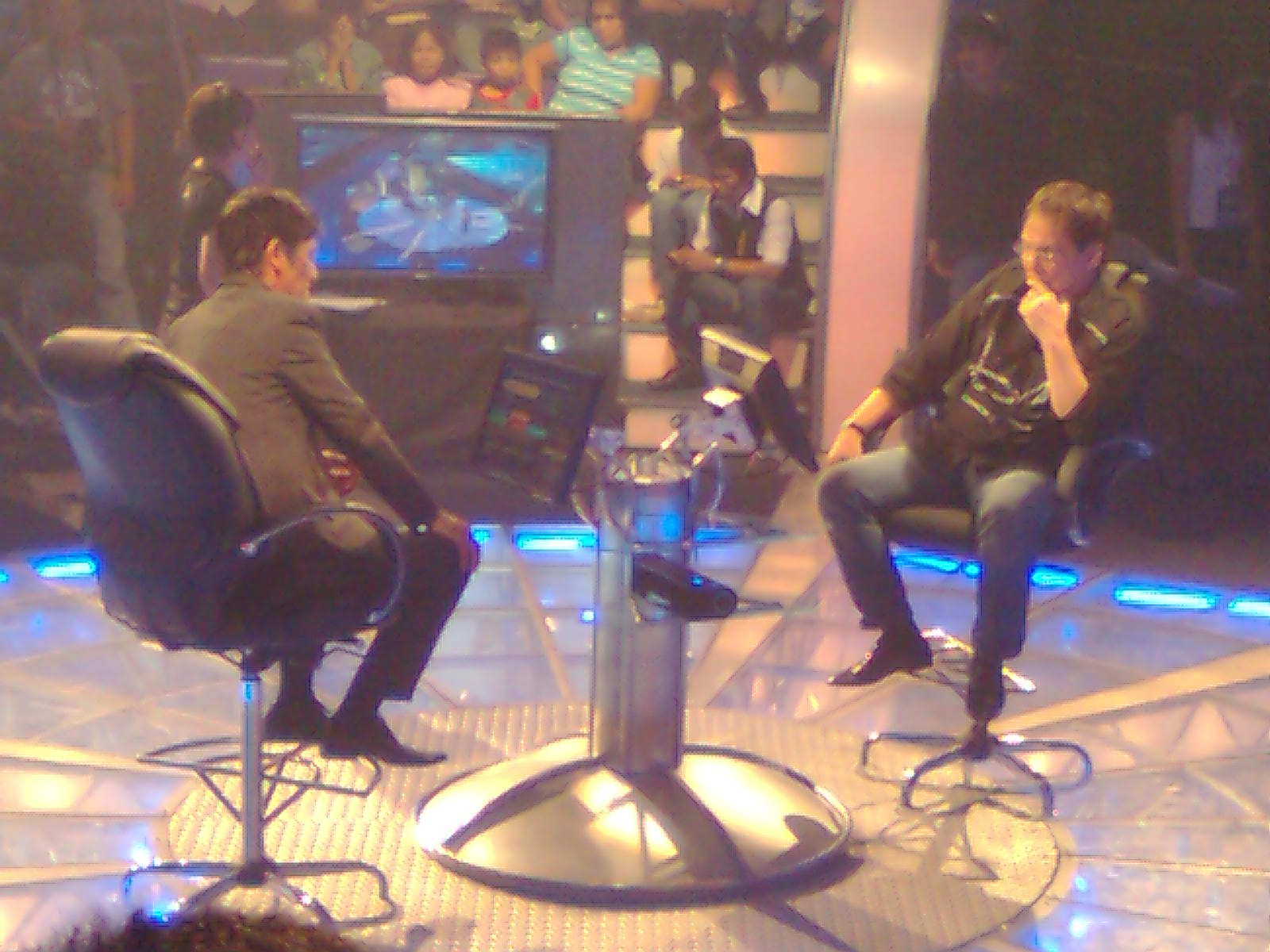 Host Vic Sotto asks contestant Joey de Leon in an episode of Who Wants to Be a Millionaire?.